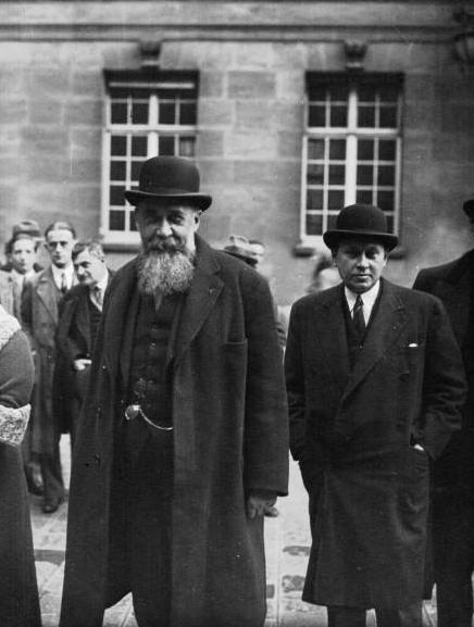 Photograph of Romanian historian Nicolae Iorga (Jorga), upon receiving the Honoris Causa Doctorate from the Sorbonne, Paris.